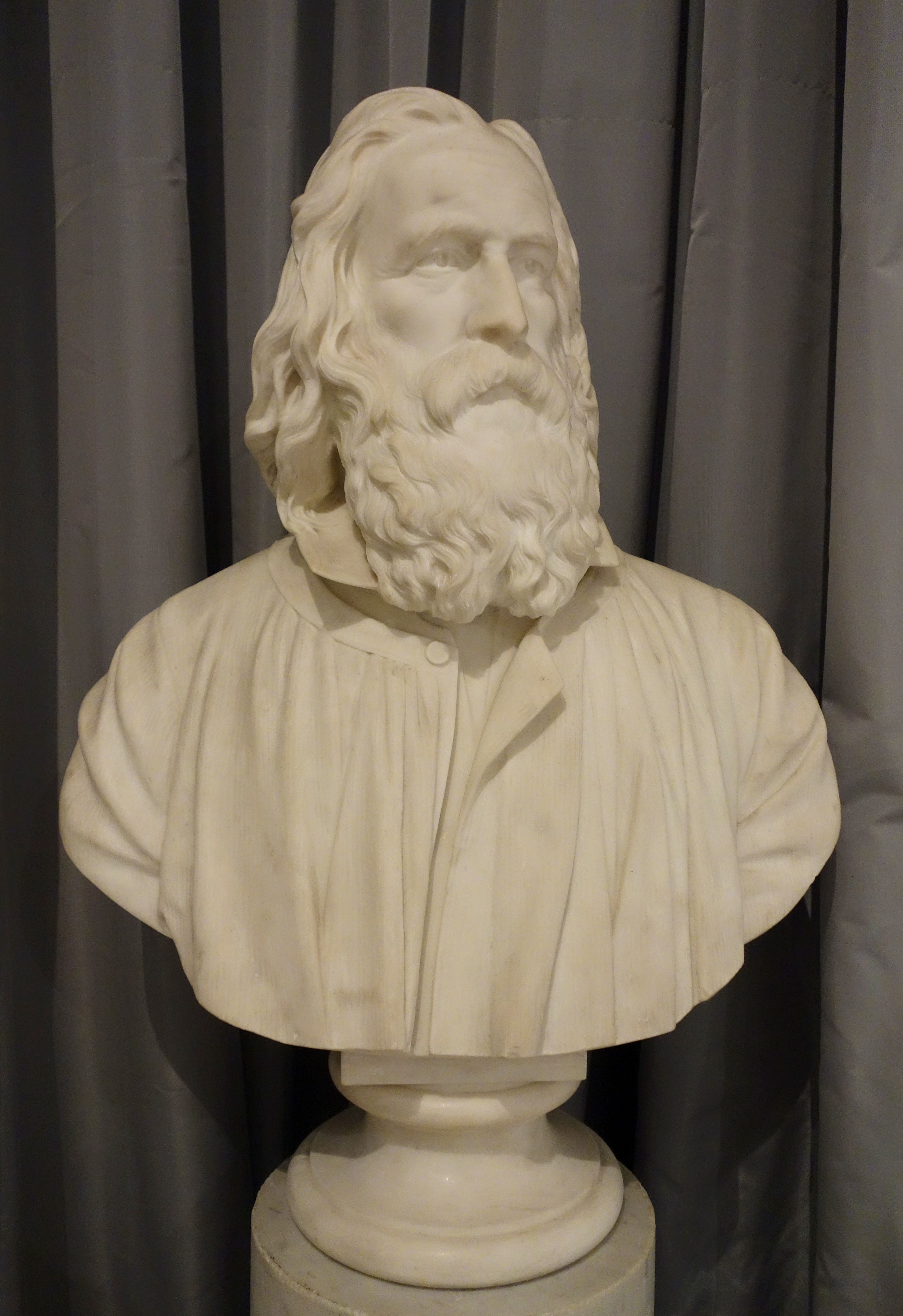 Exhibit in the Accademia Ligustica di Belle Arti, Genoa, Italy. This artwork is old enough so that it is in the public domain.